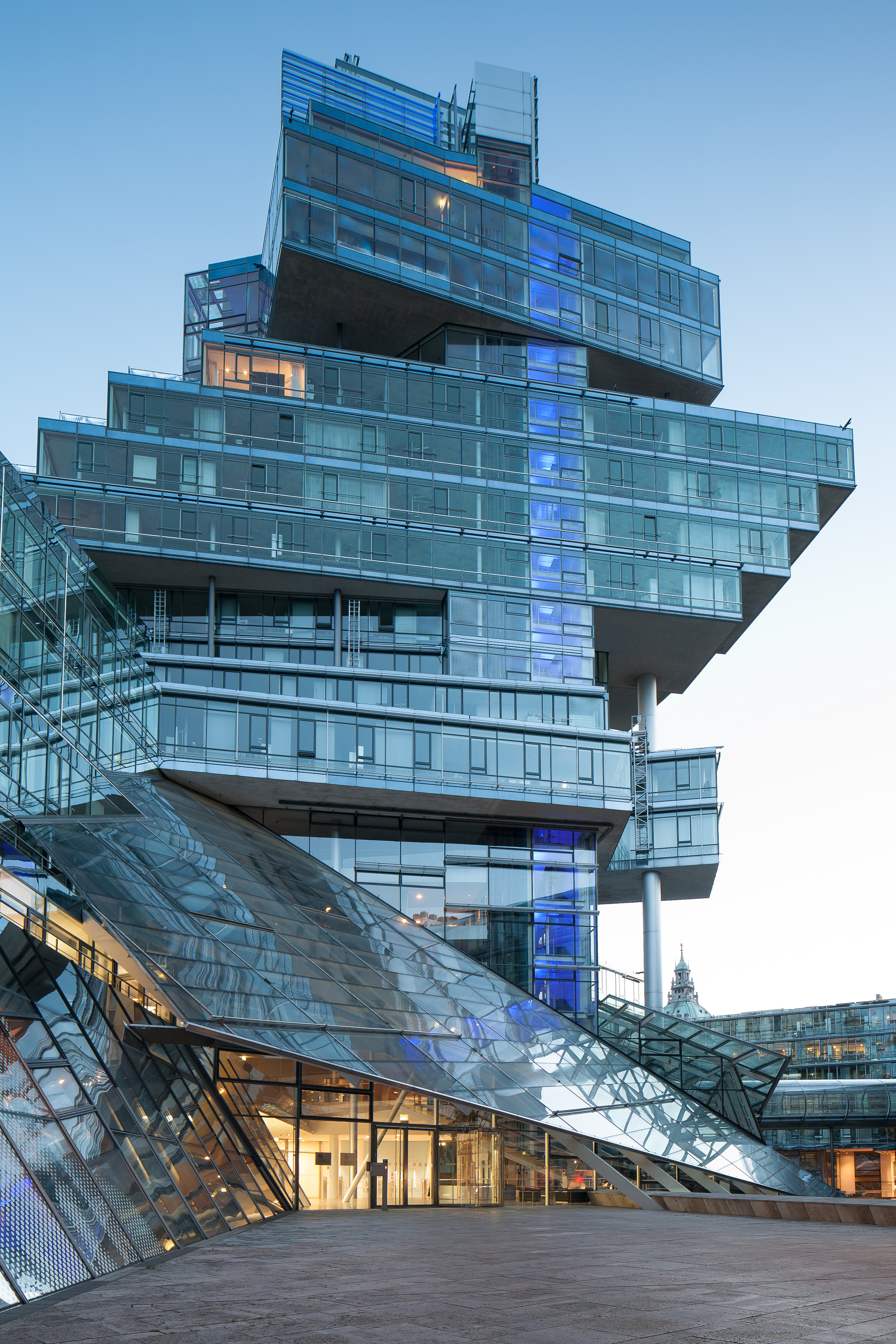 Administration building of Norddeutsche Landesbank (Nord/LB) located in Hanover, Germany. View of the tower and the main entrance from inside the complex.